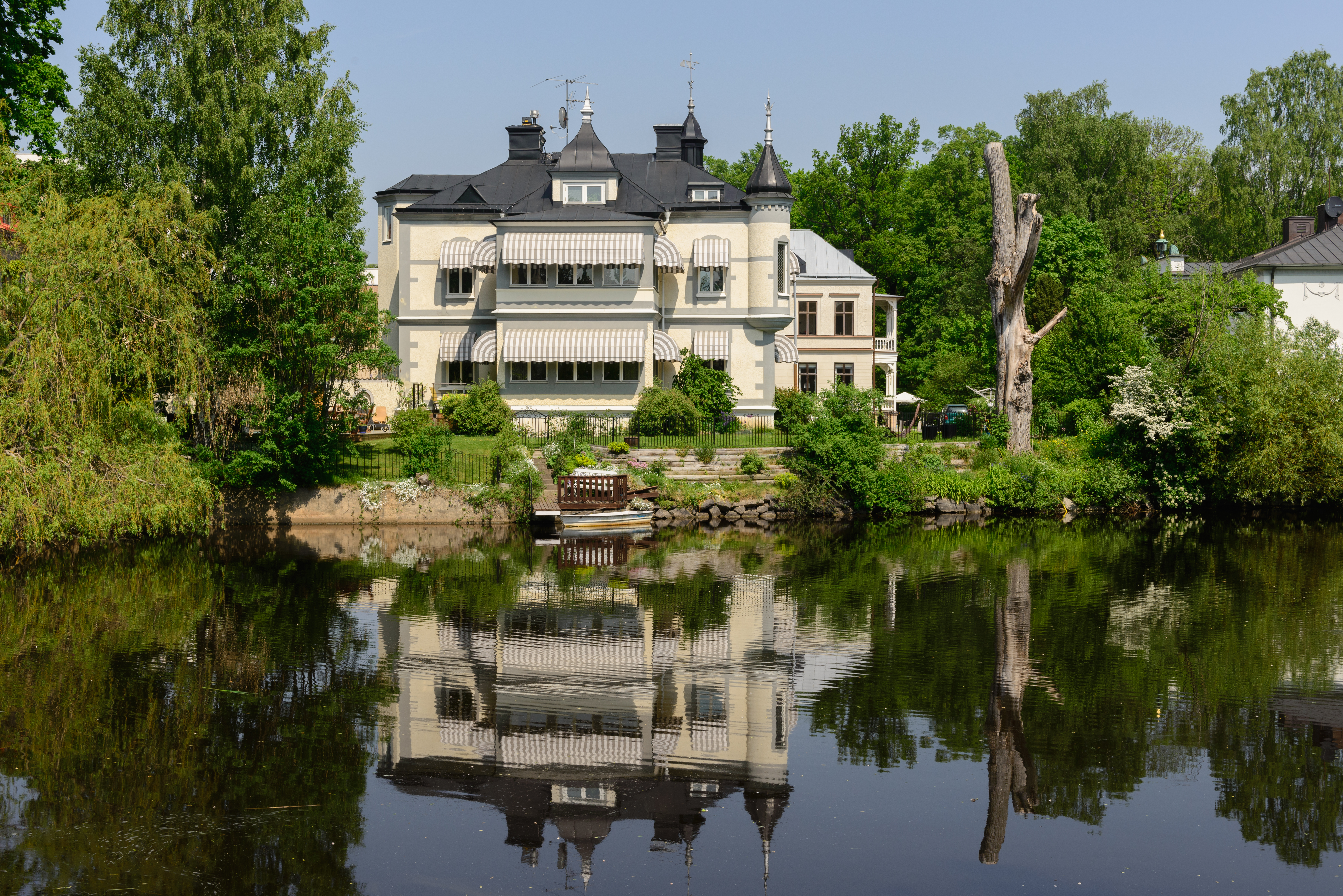 Buildings in Choisie, a small district in Örebro, next to river Svartån.